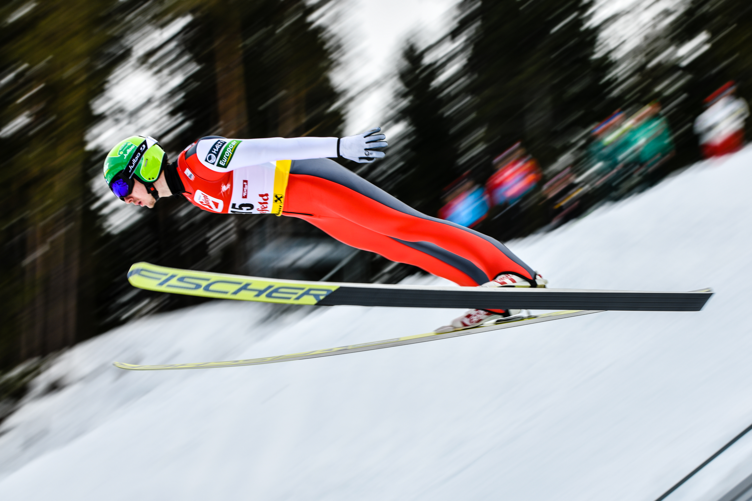 Seefeld-Triple 2018, third day January 28th. Picture shows Ilkka Herola